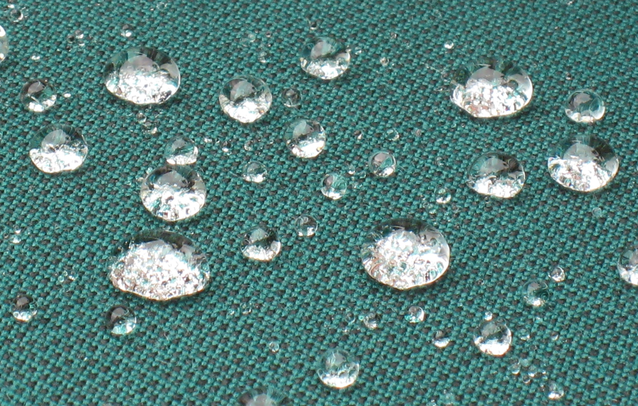 Drops of rainwater lying on deck chair mesh. Some raindrops have coalesced into larger droplets.